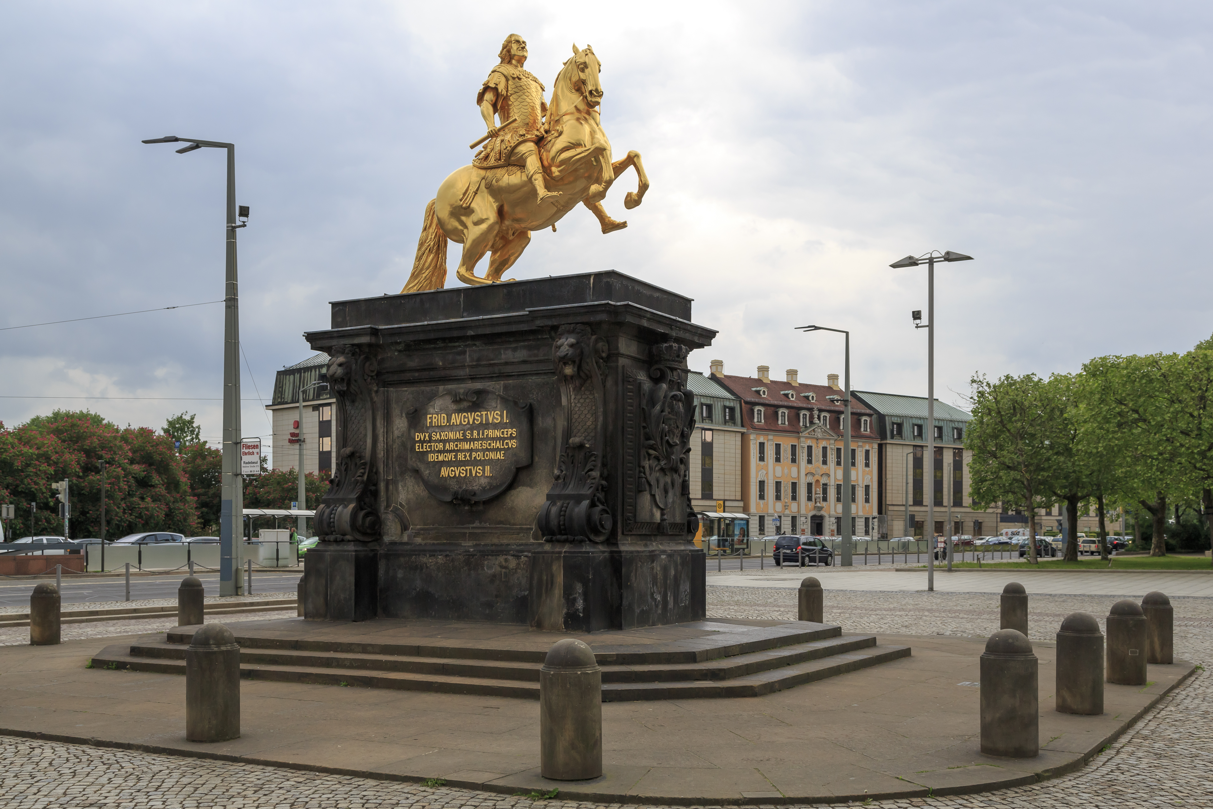 Dresden, Germany: Goldener Reiter, memorial of August II the Strong